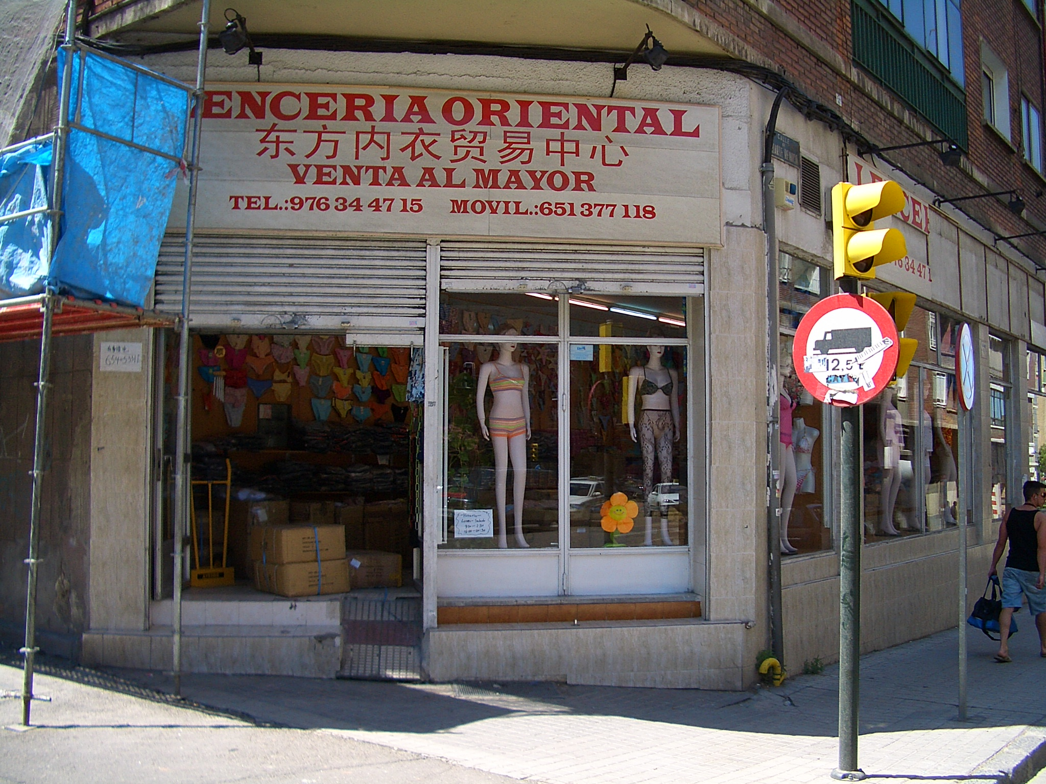 A Chinese-run clothing shop in Zaragoza